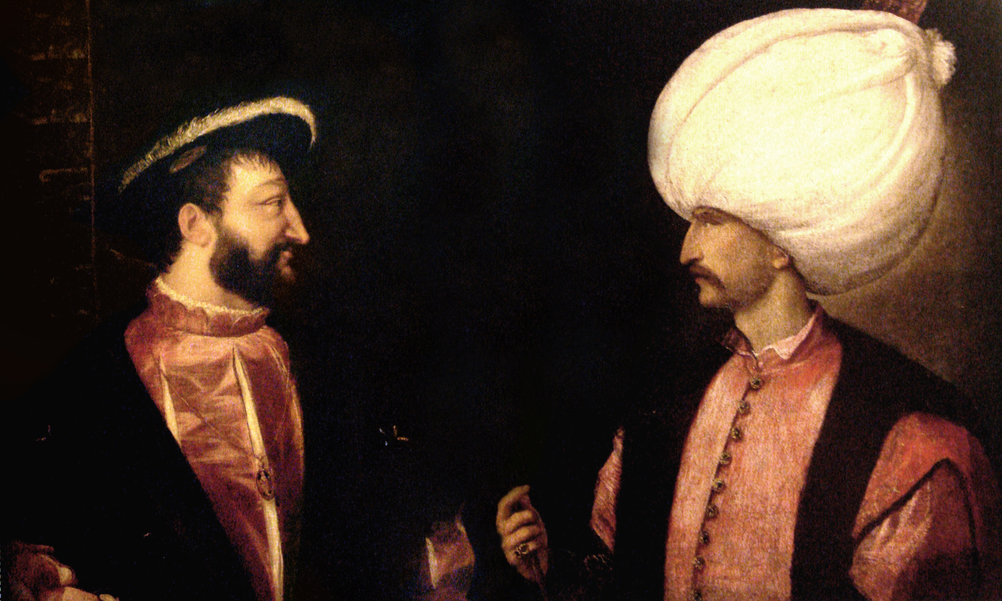 Francois I and Suleiman the Magnificient